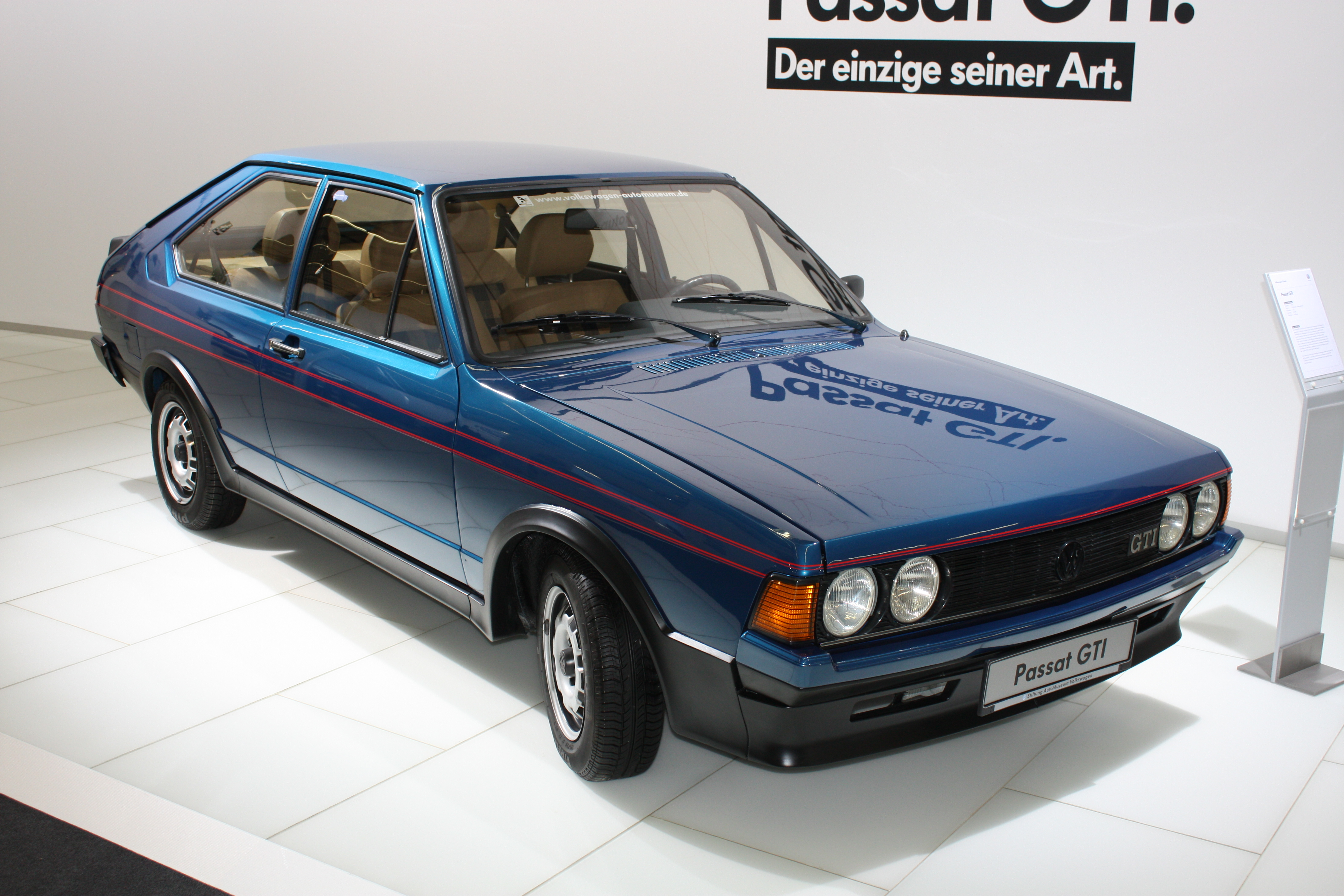 VW Passat (B1) GTI prototype, only one made, seen at Techno Classica, Essen, Germany